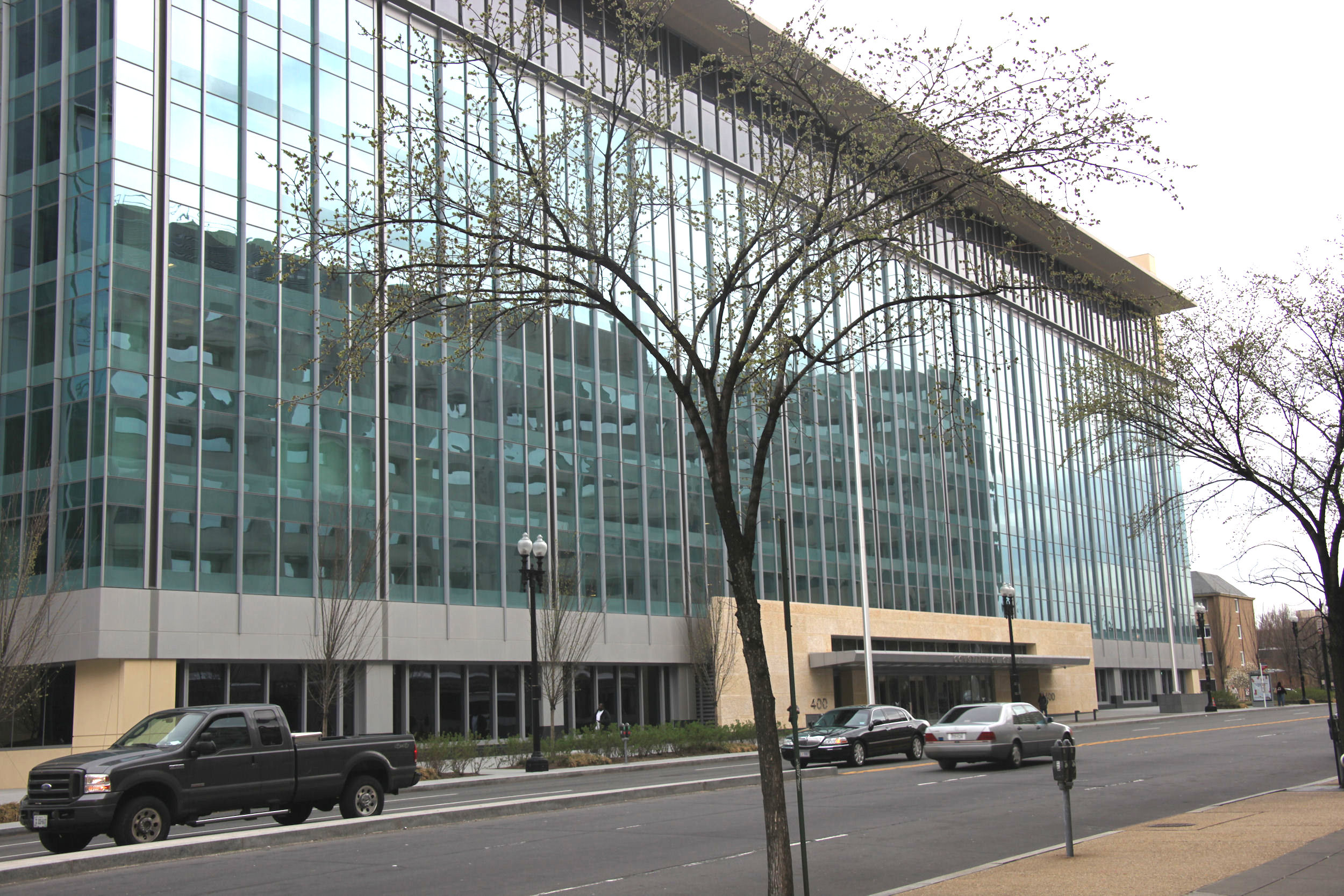 West facade and entrance to Constitution Center, a high-rise office building in Washington, D.C., in the United States. This shows the entire length of the building, which occupies an entire city block. The all-glass facade replaced an earlier facade from 1969 of white marble ribbing over dark glass. The Modernist-style building is located at 400 7th Street SW.